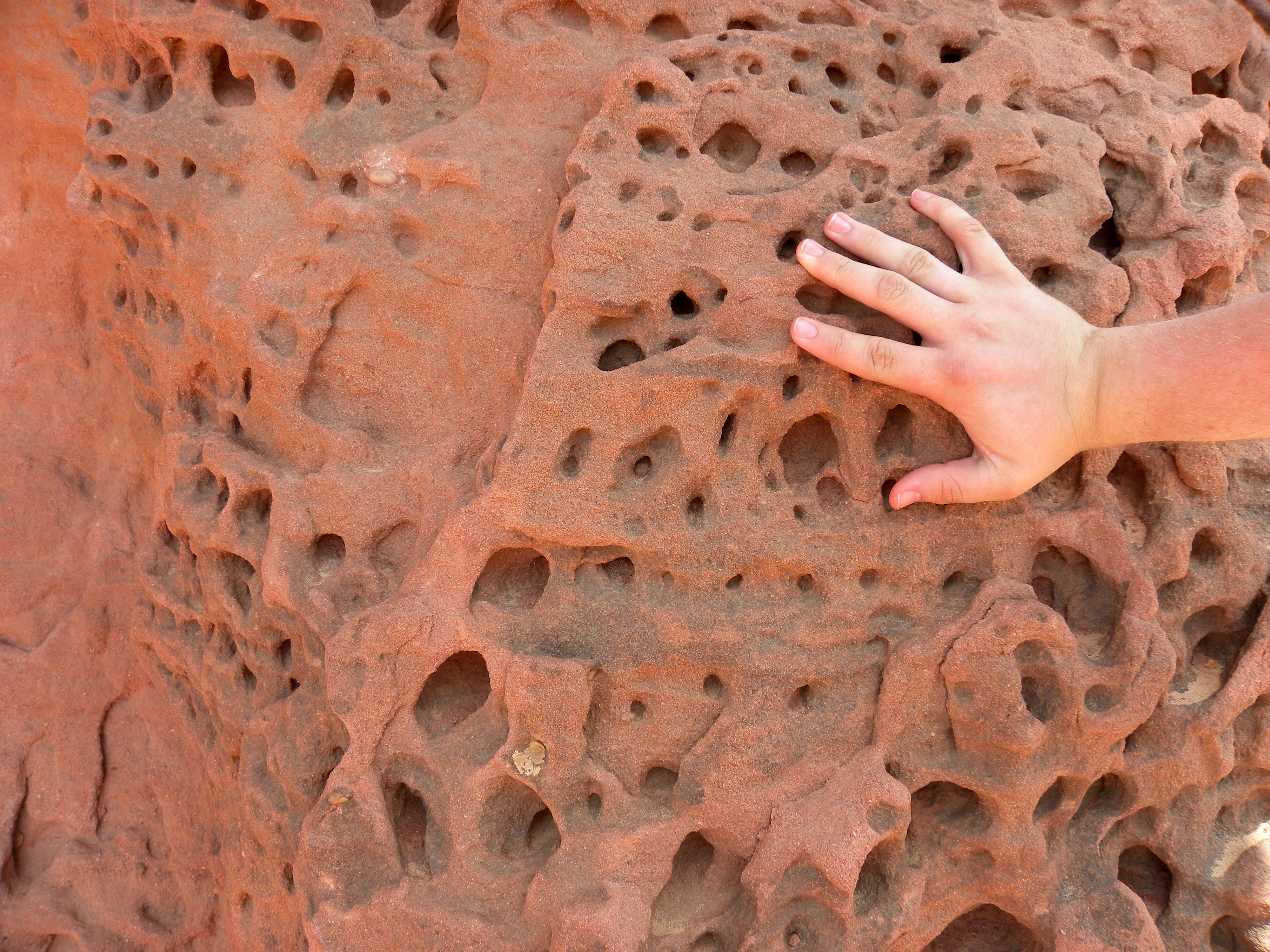 Honeycomb weathering in a Cambrian sandstone exposed in Timna Valley, southern Israel.